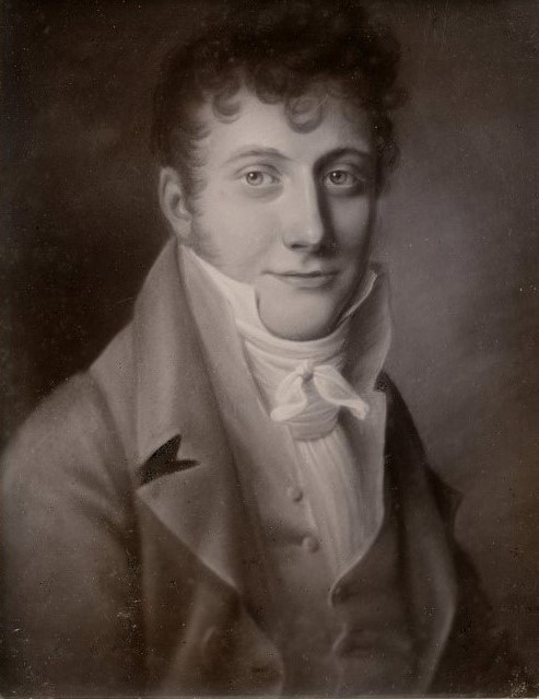 Copy of Portrait of Christian Vaagepetersen by Christian Hornemanns (1765-1844) , probably by Peter Copmann (1794-1850)